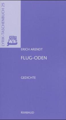 Book cover of Erich Arendt "Flug-Oden" 1959